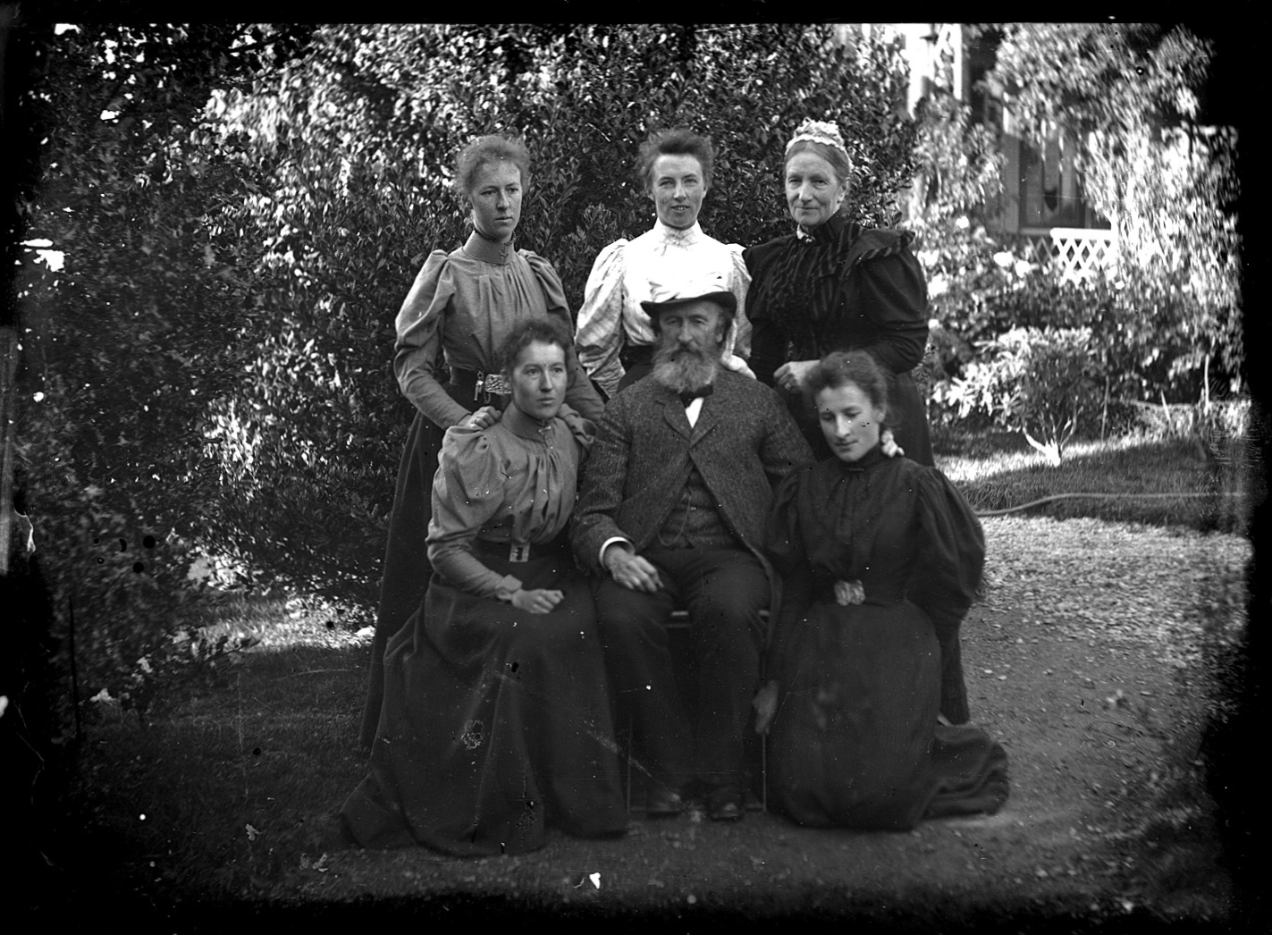 J.B.A. Acland and Emily Acland with their daughters; Lucy and Harriet (standing); Bessie and Rosa (seated), 1890.